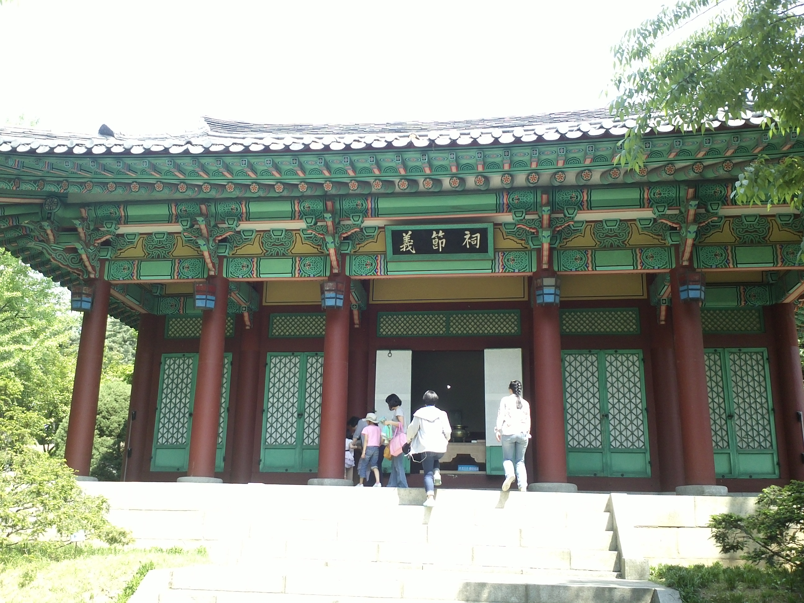 Sayukshin Shrine, Uijeolsa